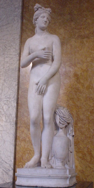 Statue of the type of the Capitoline Venus. Marble, Roman copy of ca. 100-150 CE after a Hellenistic variant of the Cnidian Venus. Excavated in 1794 by Robert Fagan at Campo Iemini, near Torvaianica, Lazio, Italy.